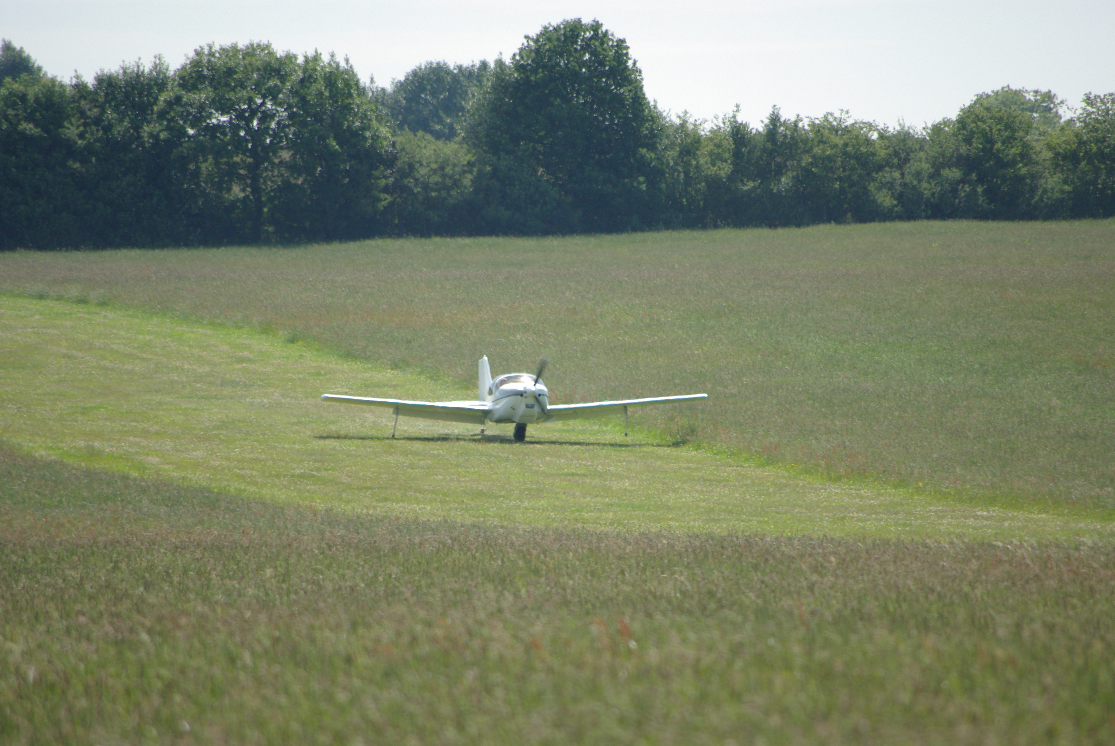 Europa XS G-BYSA take-off follows Coal Aston strip in the 29 direction